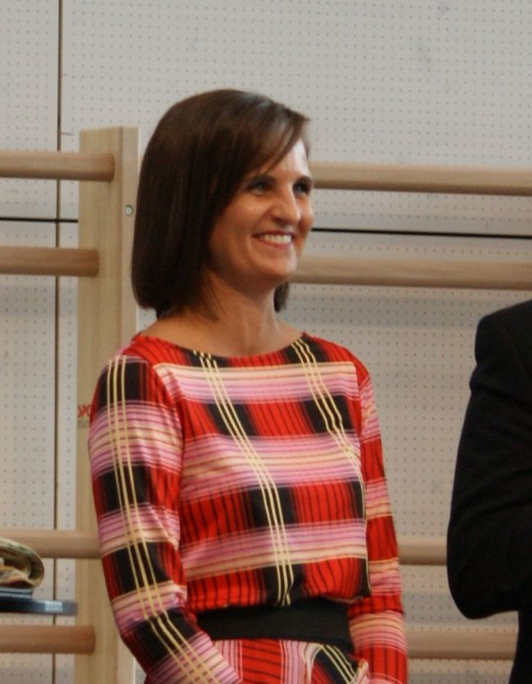 "Schule am See" (School on the Lake Constance) in Hard, Vorarlberg, Austria. moderator Martina Ess at the opening of the school.